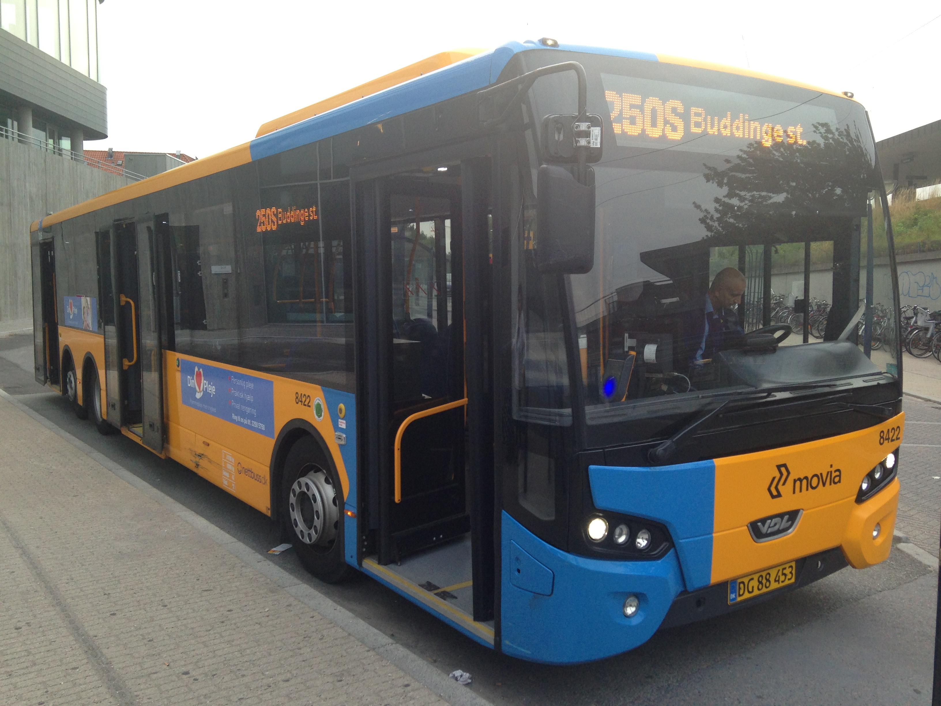 Nettbuss VDL Citea bus as Movia bus line 250S at Buddinge station, Copenhagen.